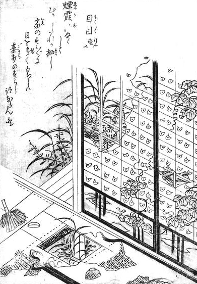 Mokumokuren (目目連, a swarm of eyes that appear on a paper sliding door in an old building) from the Konjaku Hyakki Shūi (今昔百鬼拾遺)